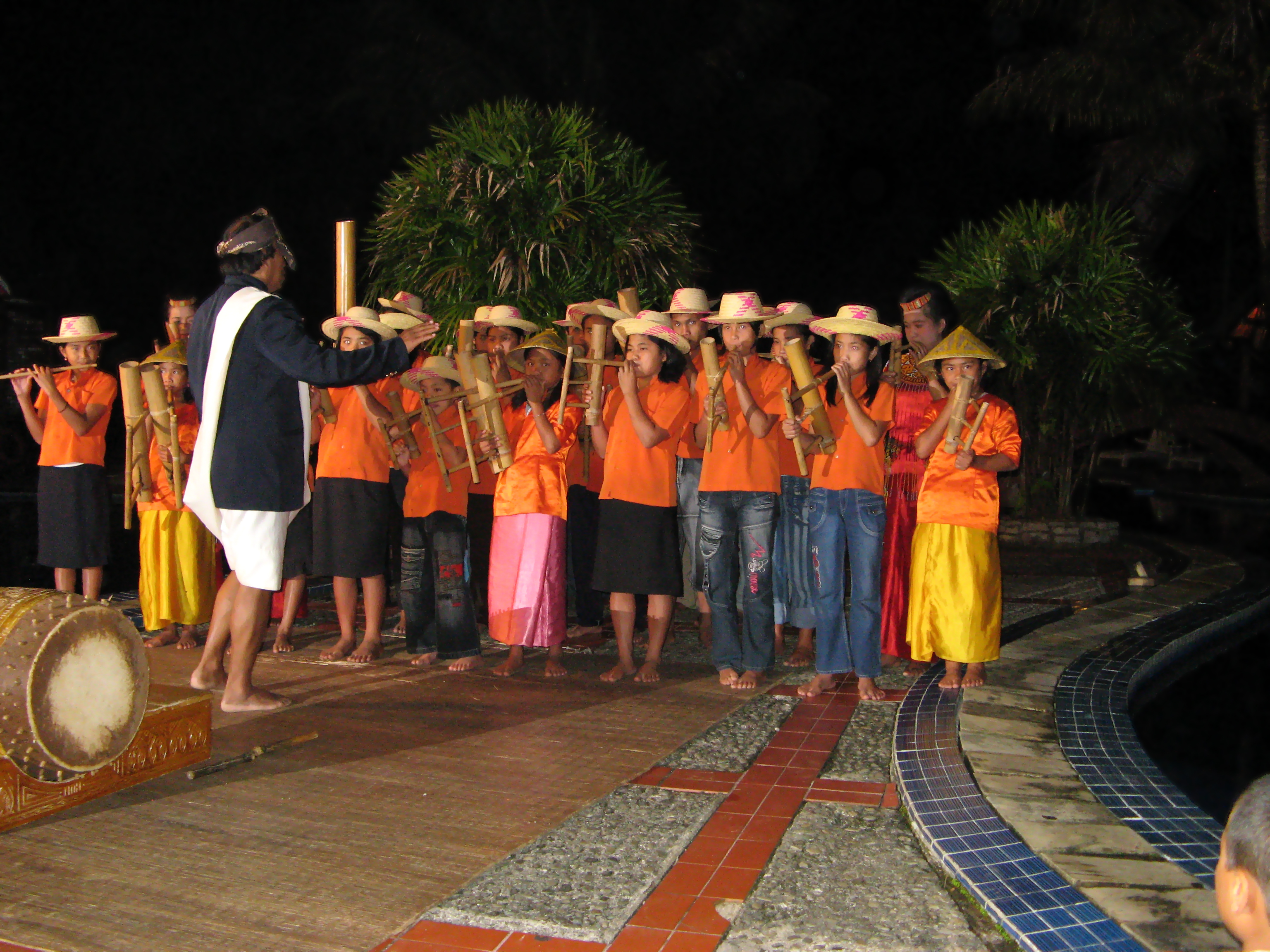 The "bamboo orchestra" is a regional staple of music in Toraja. Most of the instruments are fixed-length mouth-blown bamboo pipes, each of which can produce only a single pitch, although you can see a flute at the photo left. To perform a piece of music, each of the players must sound his "note" in the correct sequence and timing, like bell-ringers ringing changes. The result sounds a bit like a calliope or a mechanical organ, although much softer.